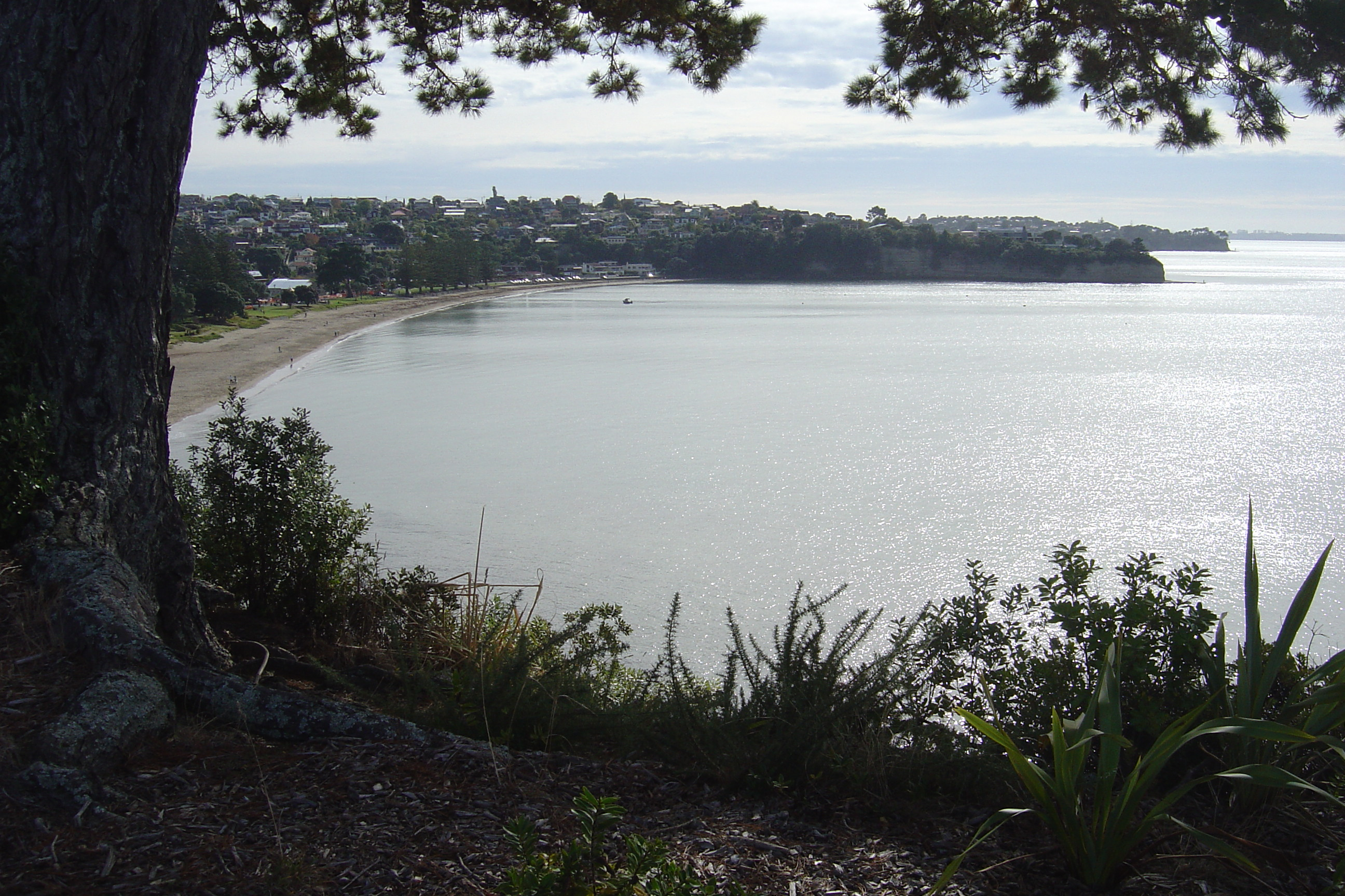 Looking down on Browns Bay and beach from the point to the south